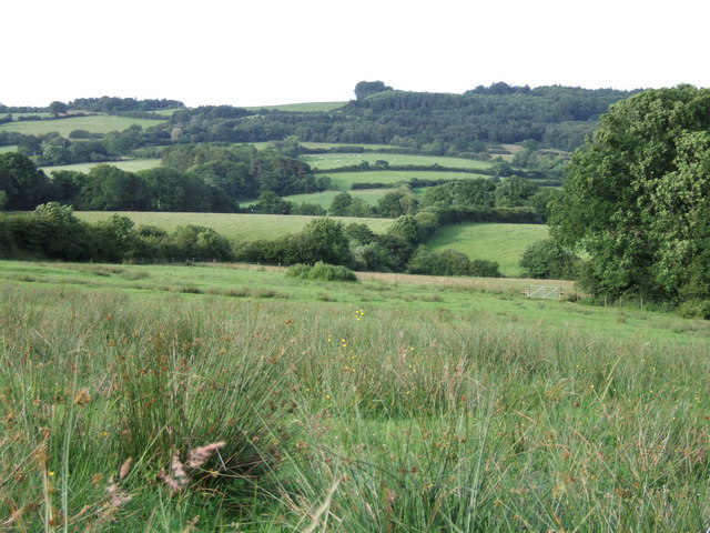 Headwater valleys of the Blackwater The view looks across the valleys of some half a dozen streams collecting to form the Blackwater River. Seen from a field crossed by Hawkchurch Footpath 5, here followed by the Liberty Trail and the Wessex Ridgeway path. In the background rises Payne's Down.